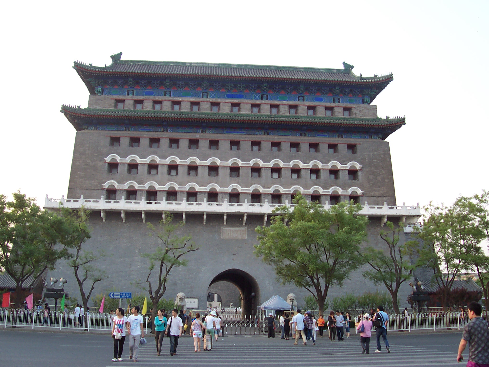 Zhengyangmen